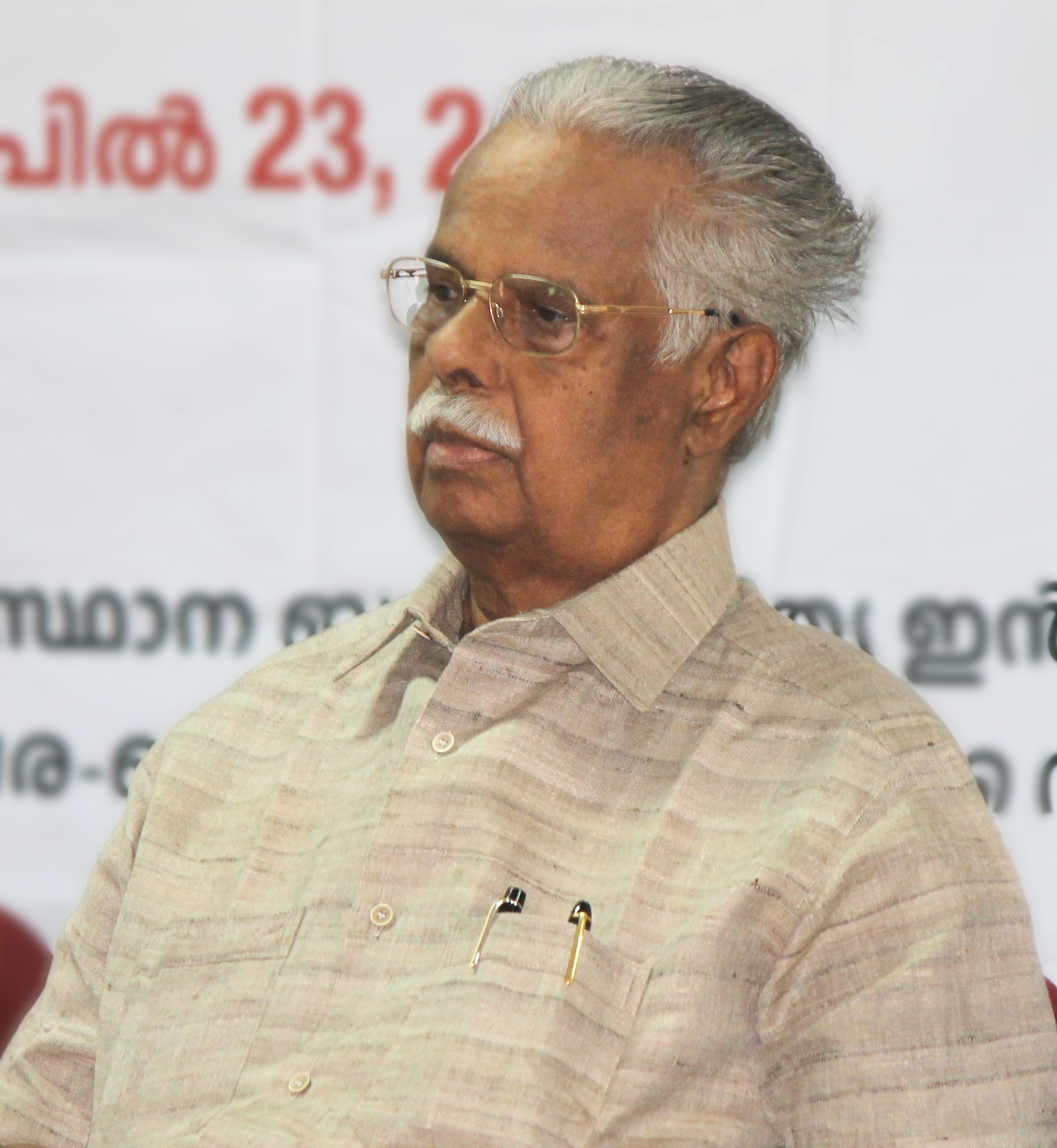 T Padmanabhan, Malayalam Writer